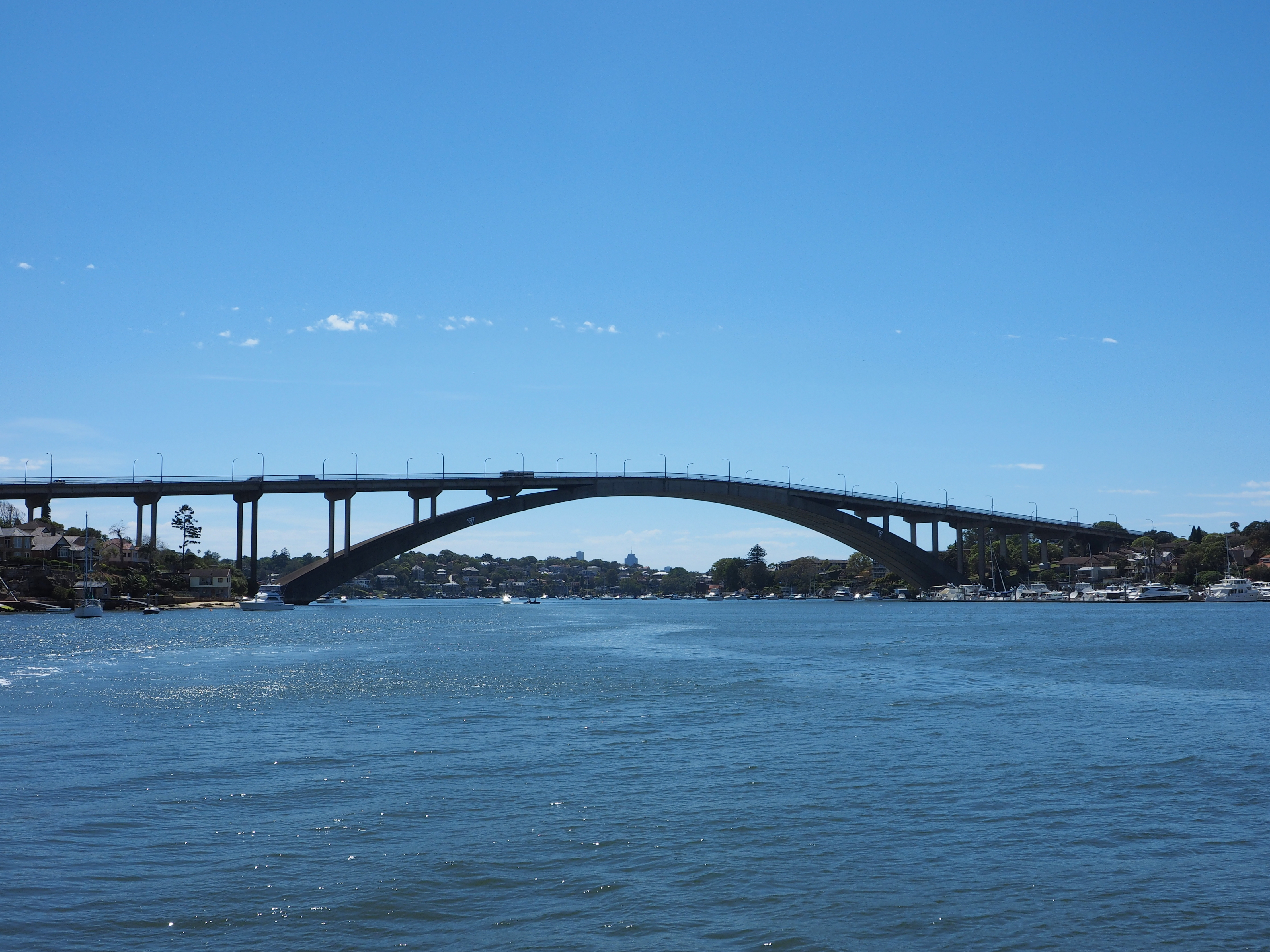 The west side of the Gladesville Bridge viewed from a Rivercat ferry on the Paramatta River